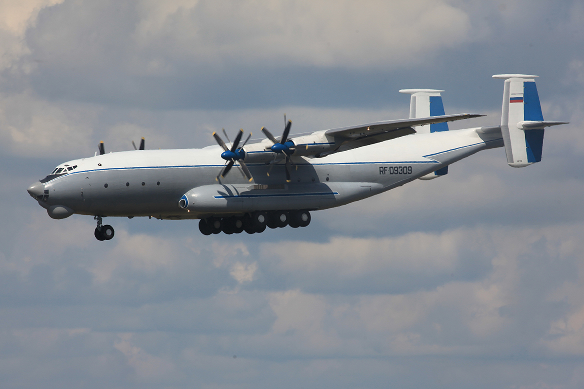 Antonov An-22. Airborne exercise of the 106th Guards Airborne Division of the Russian Federation.